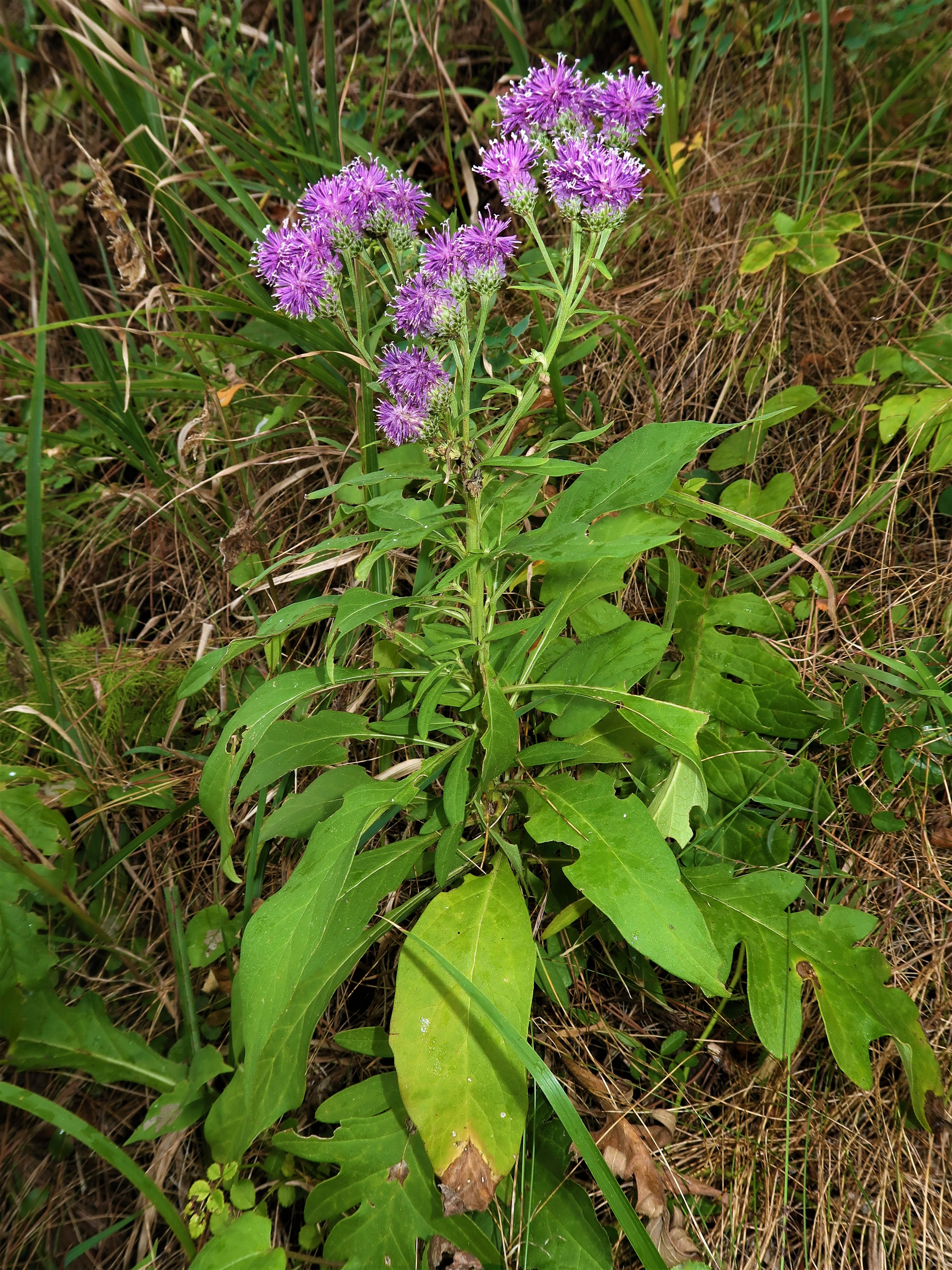 Saussurea pulchella, Noto Peninsula, Ishikawa pref., Japan